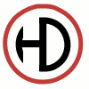 Divisional patch (HD) for the British 51st.